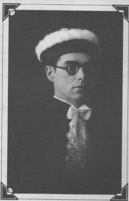 Dr. Felicio Fernandes Nogueira por ocasião de sua formatura em medicina. Data provável em 1928.